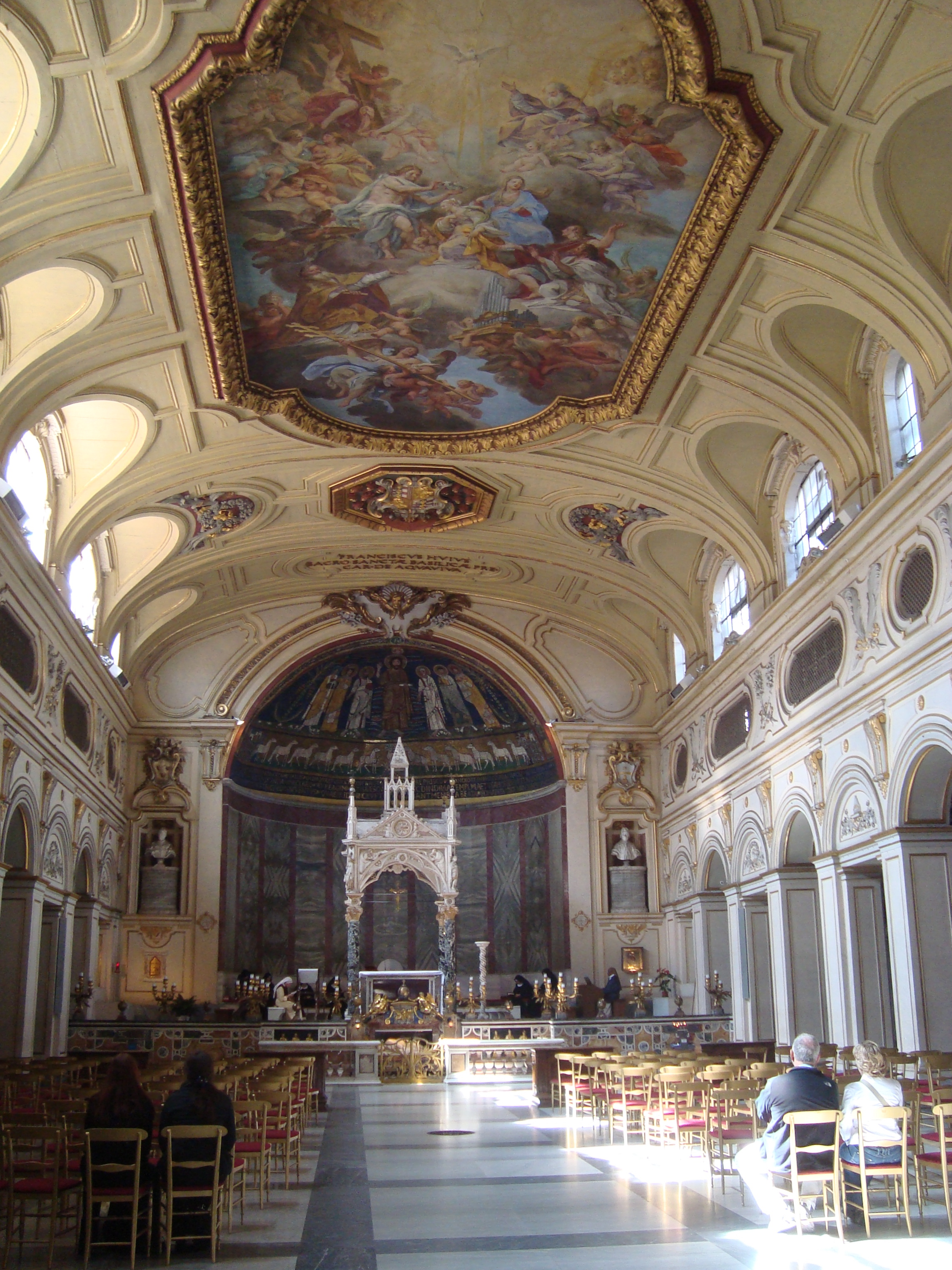 Interior of the basilica Santa Cecilia in Trastevere, Rome